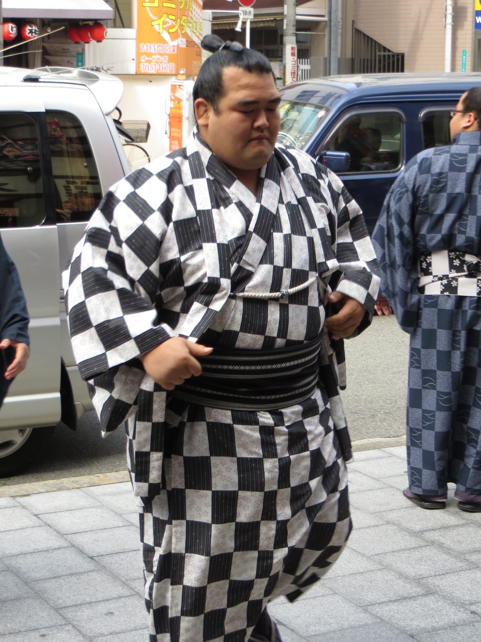 Kotoshōgiku Kazuhiro in Haru (Spring) Basho 2013, Osaka.